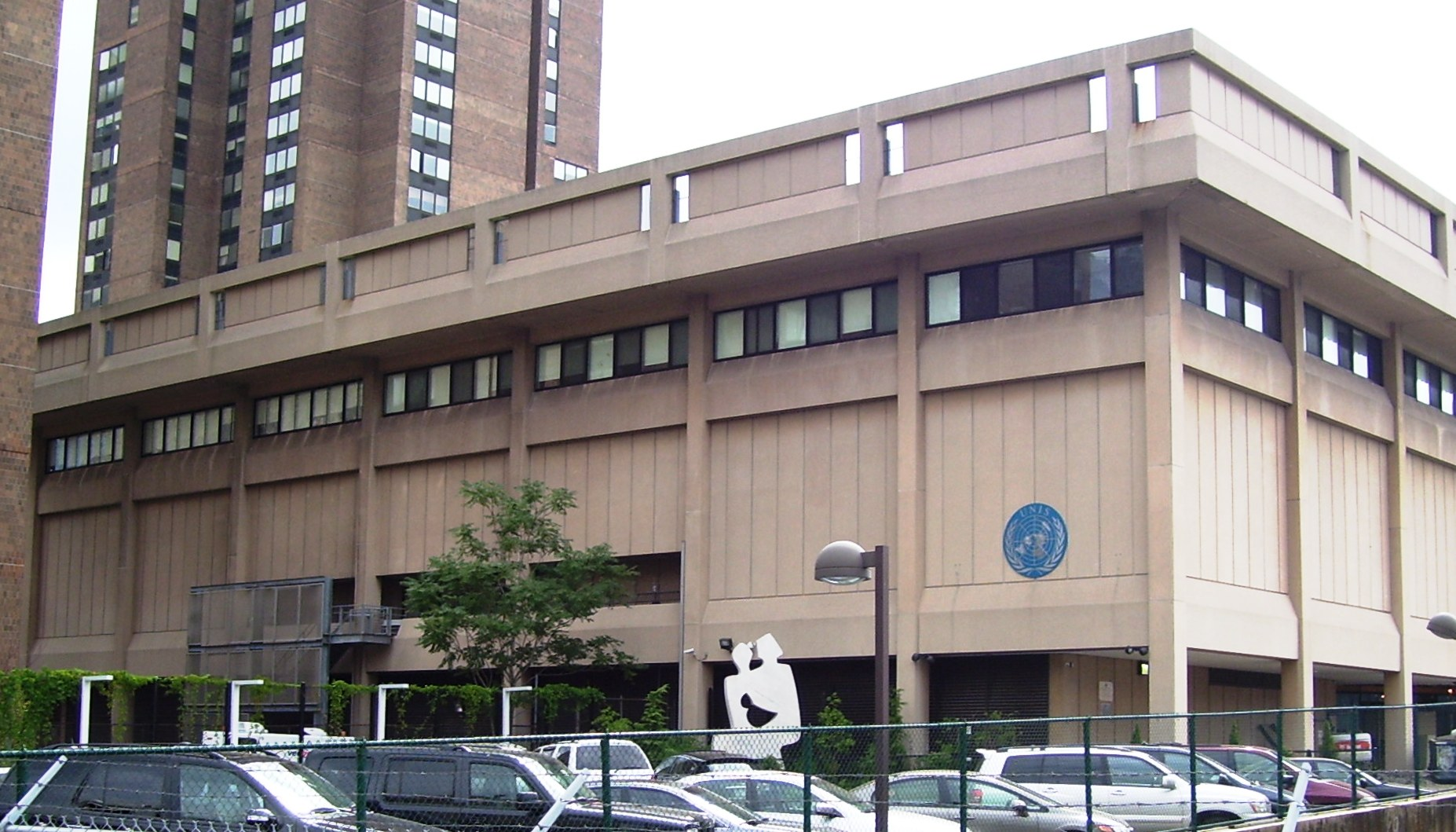 United Nations International School (UNIS) in the Kips Bay neighborhood of Manhattan, New York City. In the background is the Waterside Plaza apartment complex.